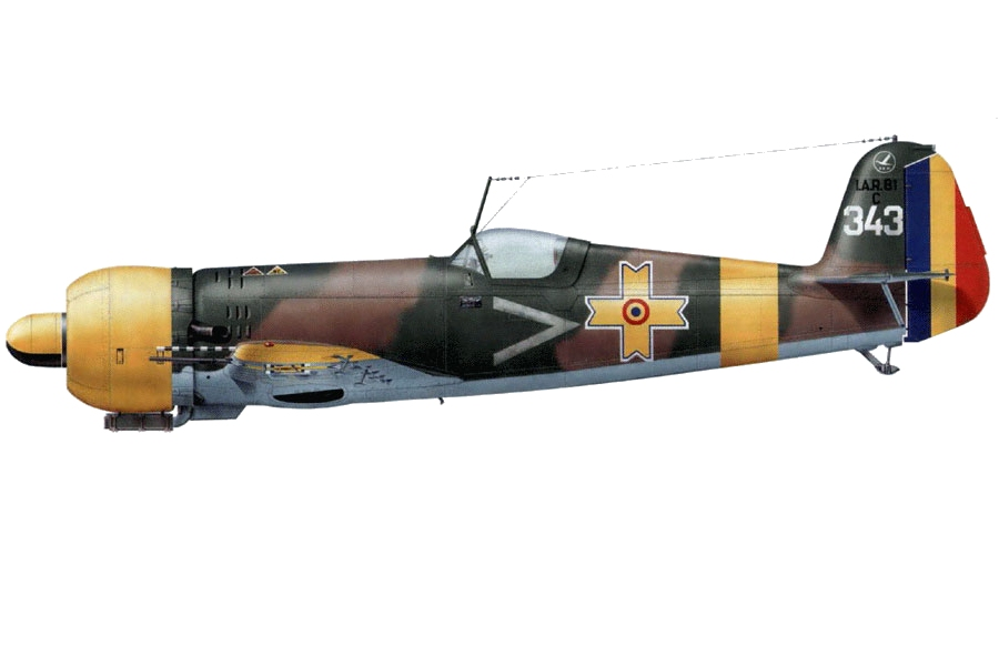 IAR-80 flown by Eugen Ianculescu